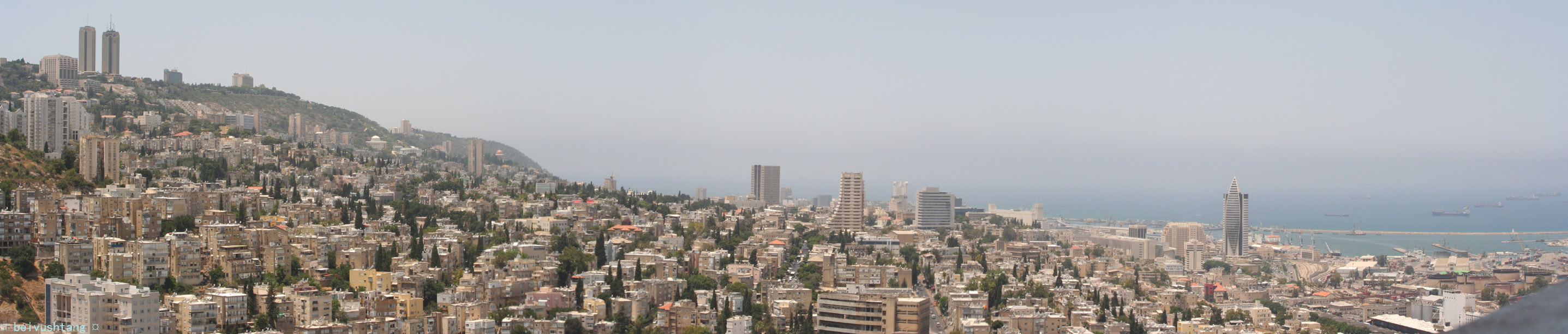 Haifa Panorama